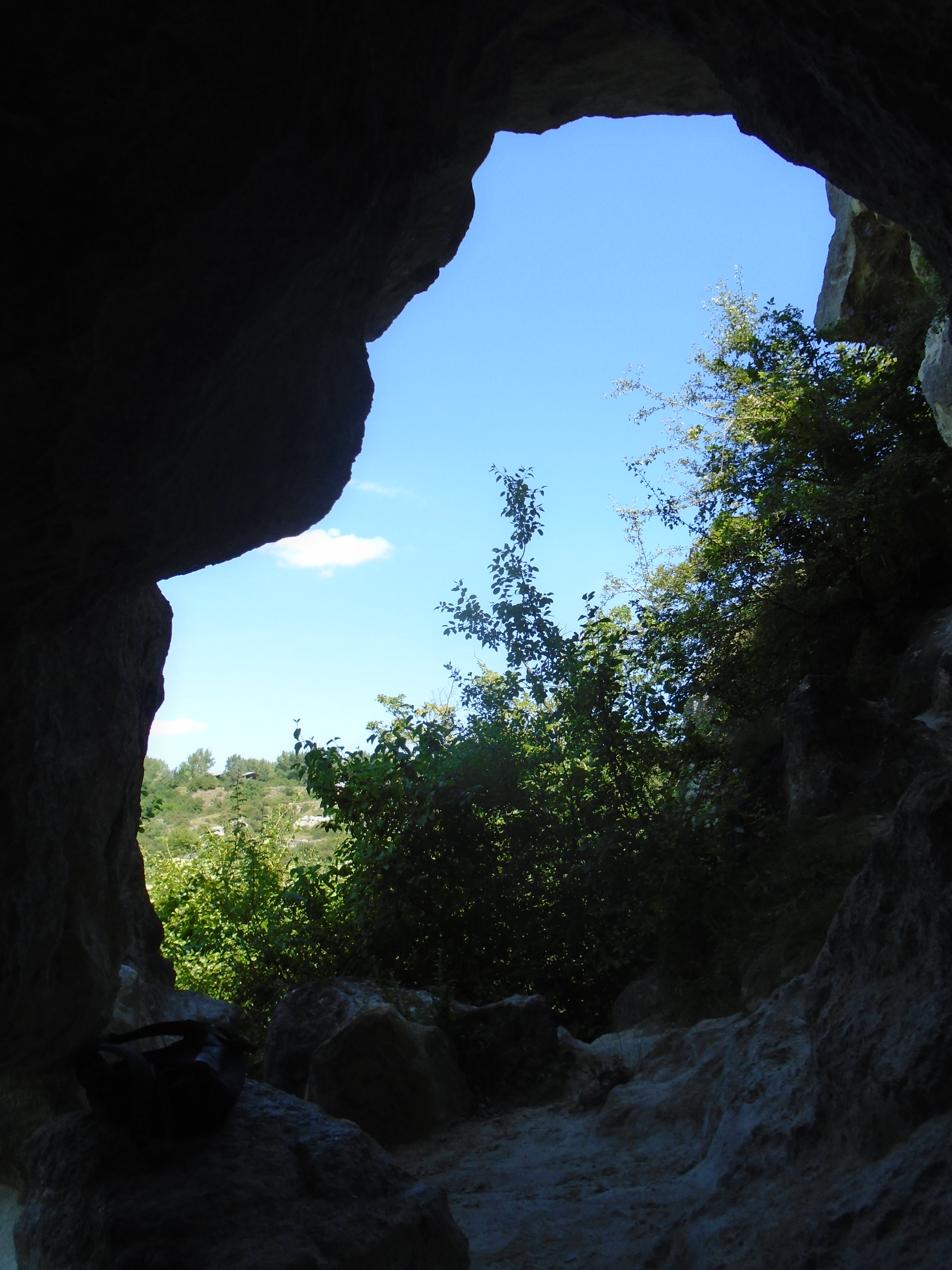 Inside of right side passage of Zelezna Baba Cave.